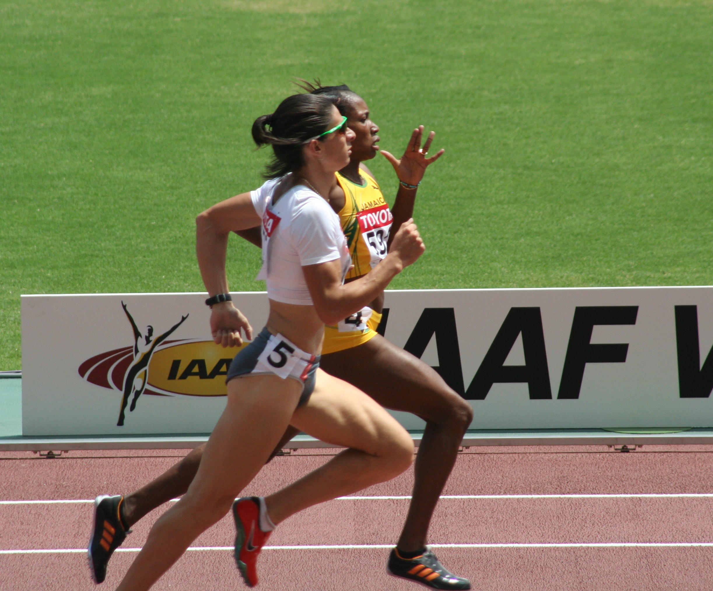 World Athletics Championships 2007 in Osaka - Mexican 400 m runner Ana Guevara together with Novlene Williams during their 1st heat